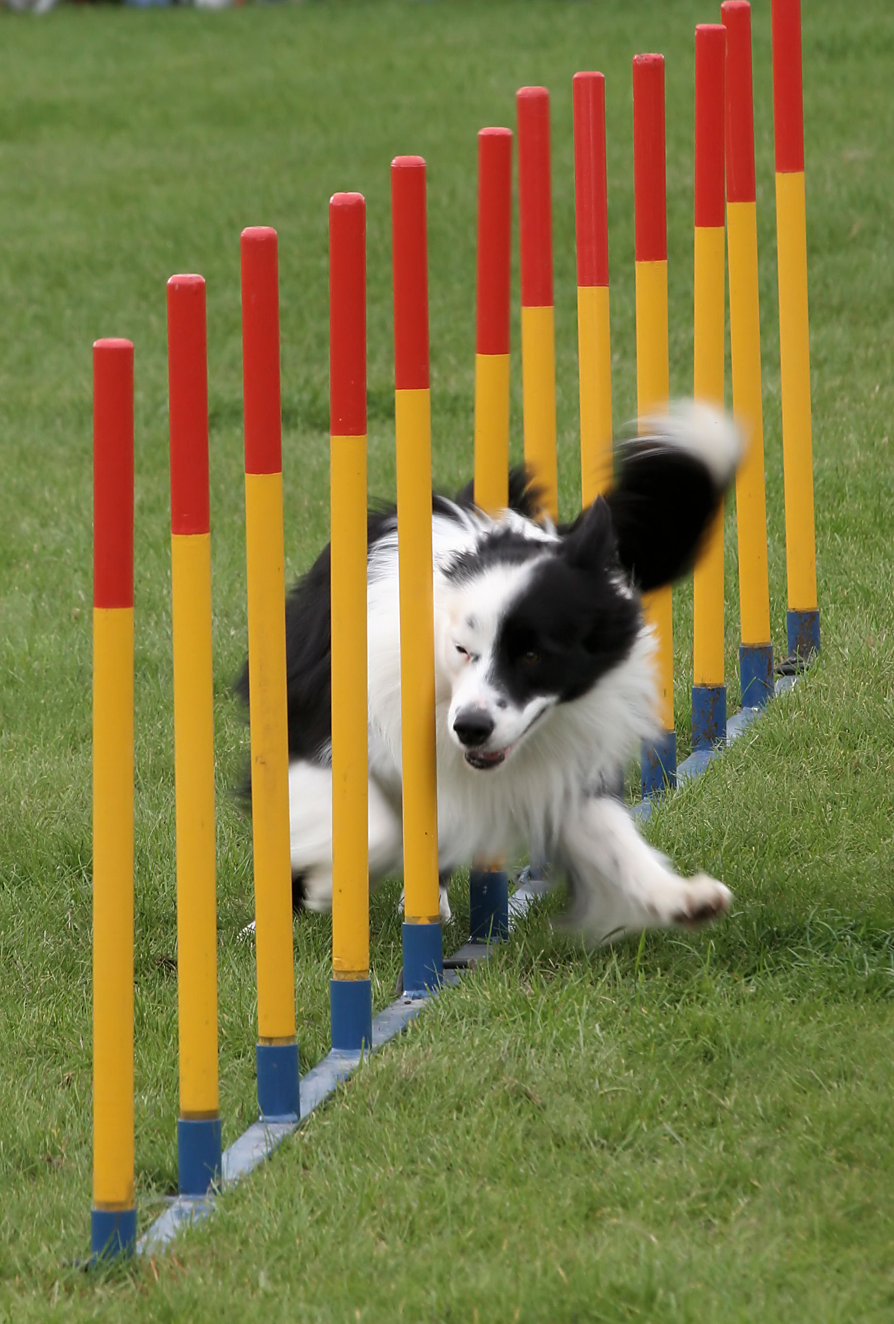 A Border Collie negotiating weave poles.